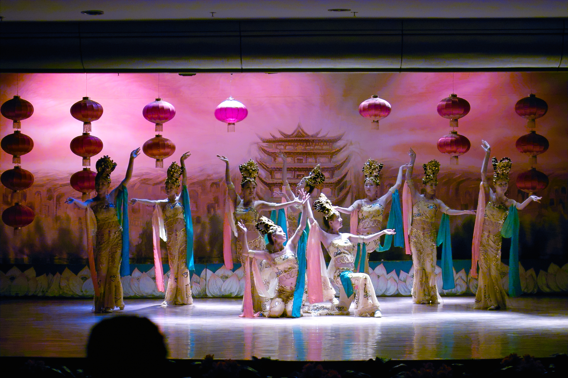 Dunhuang City historical dance performance for tourists.